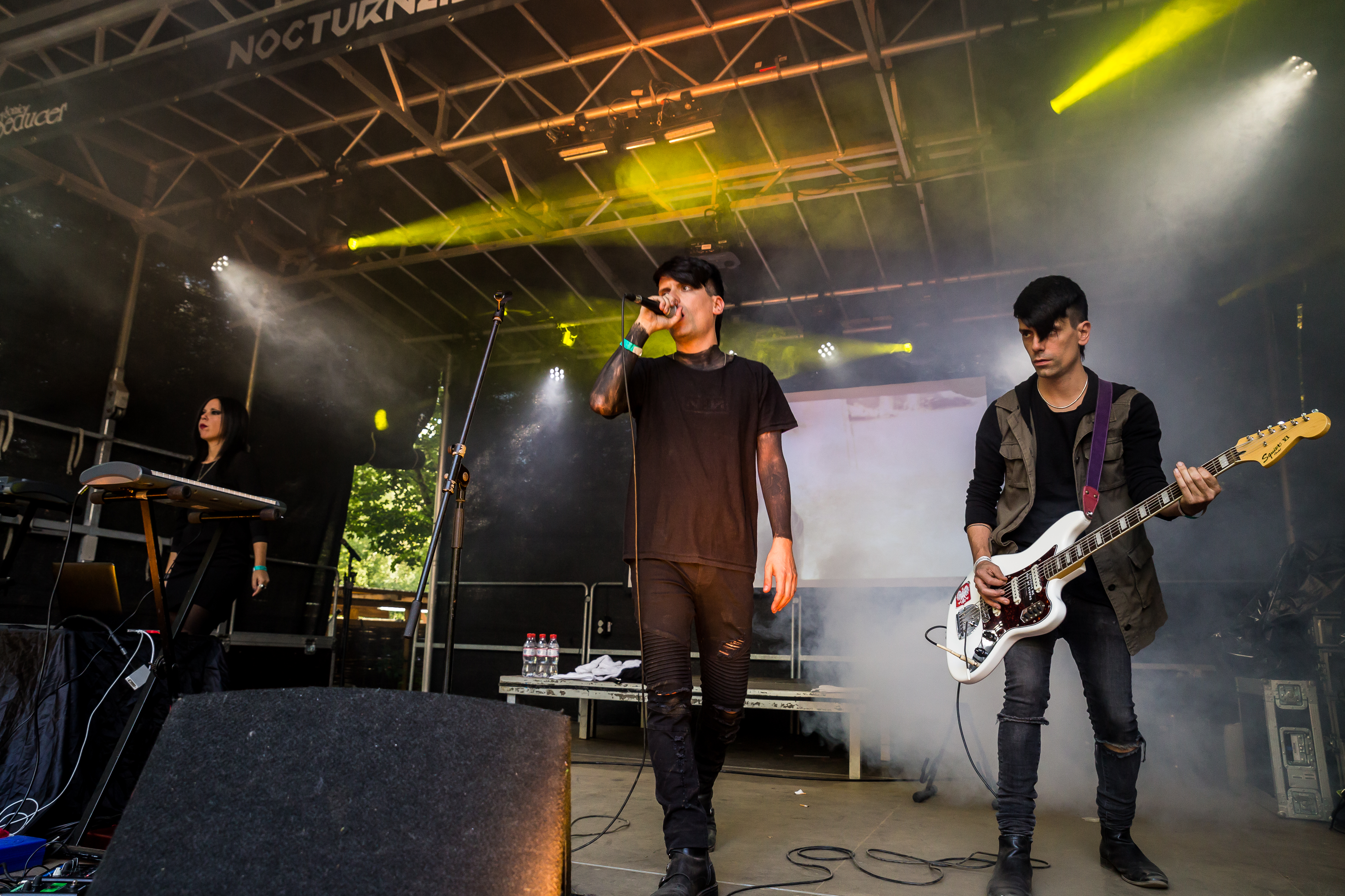 The Italian cold wave band Ash Code at the Nocturnal Culture Night 12 2017 in Deutzen/Germany.